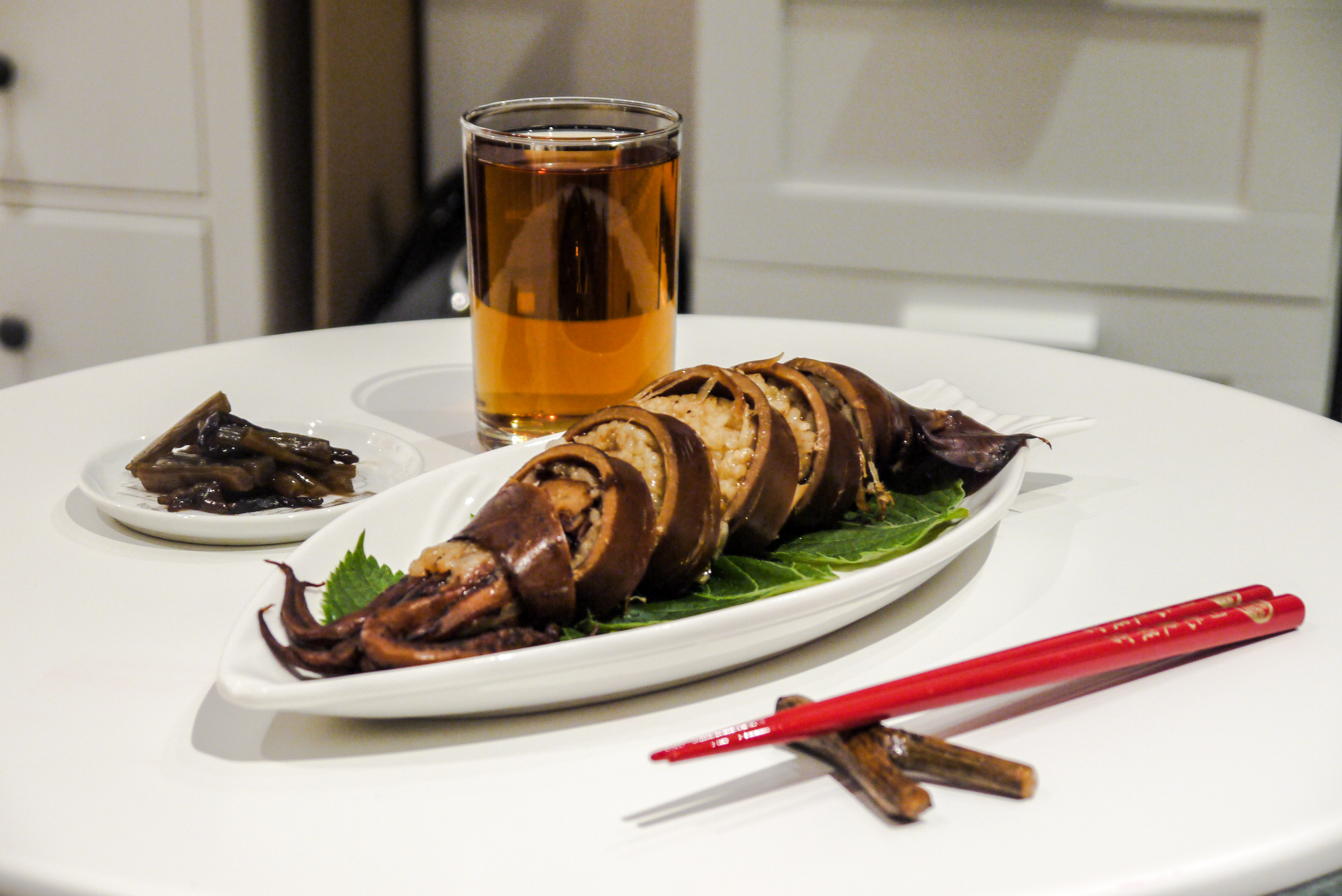 Ikameshi filled with sea urchin and rice and served with tsukemono and a whiskey highball. London, United Kingdom